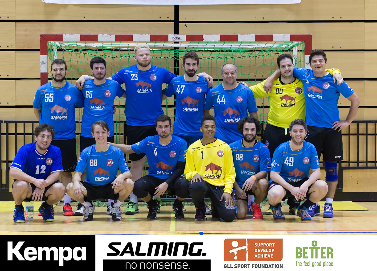 Men Regional Handball League London GD Handball Club